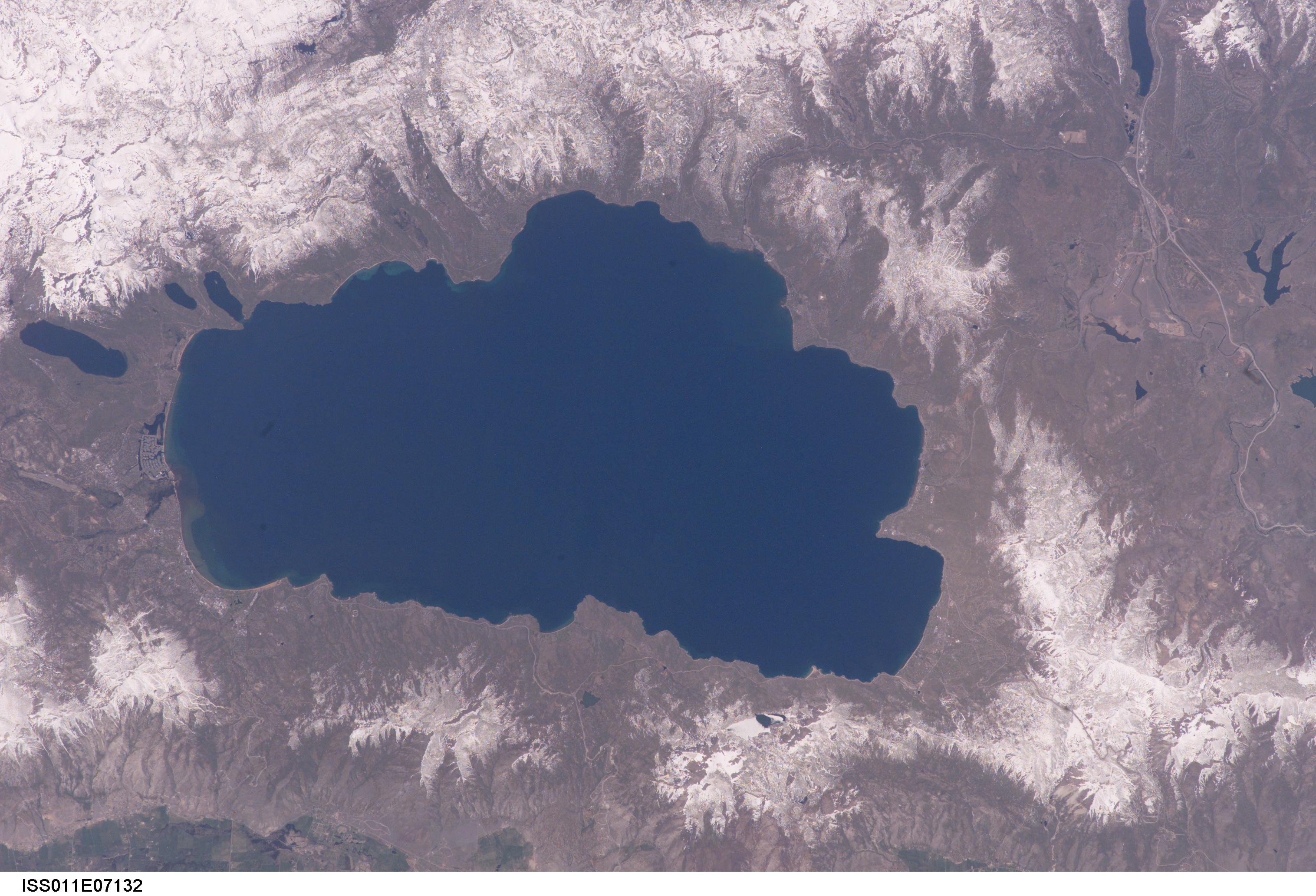 Mission: ISS011 Roll: E Frame: 7132 Mission ID on the Film or image: ISS011 Country or Geographic Name: USA-CALIFORNIA Features: LAKE TAHOE, TAHOE VALLEY, SNOW